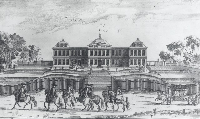 Sophienberg Slot in Rungsted, Denmark